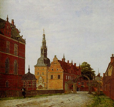 Section of Frederiksborg. The Caroussel Gate. Oil on canvas, 32,6x35,1 cm.